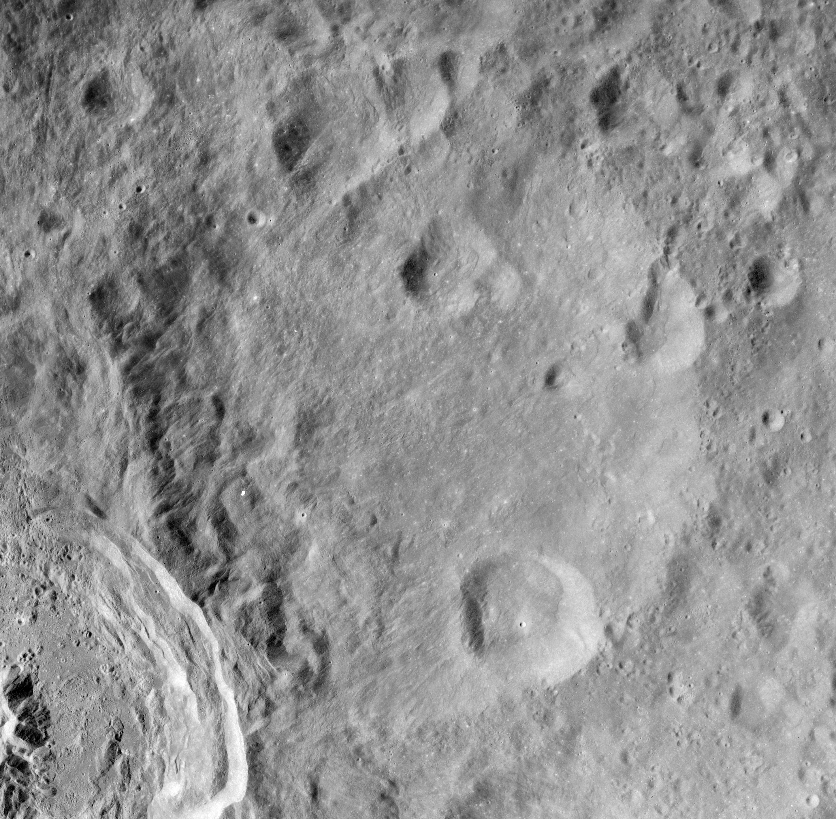 Ibn Firnas, on the far side of the moon. King crater is in lower left corner.